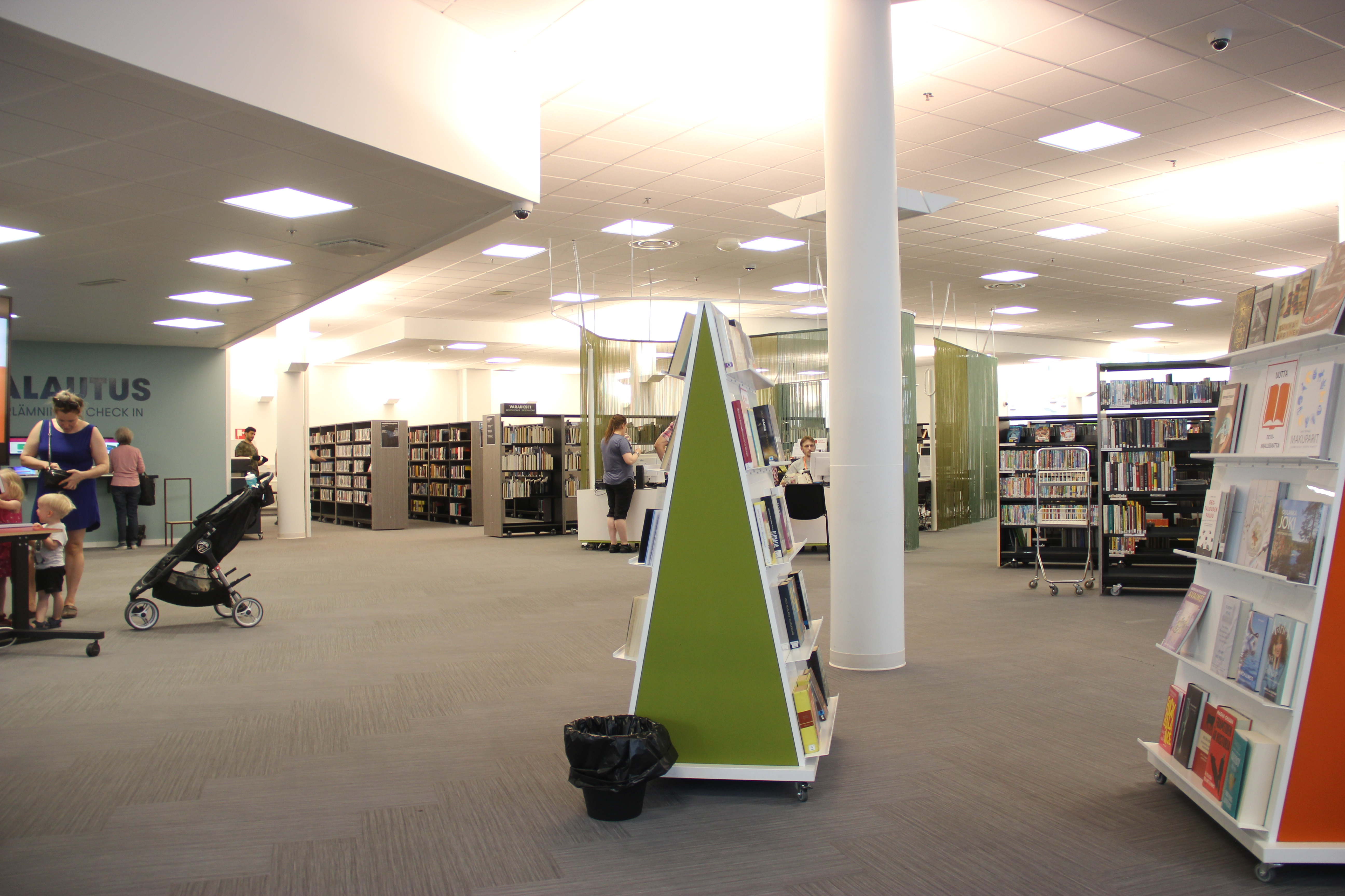 Myyrmäki library, Vantaa, Finland